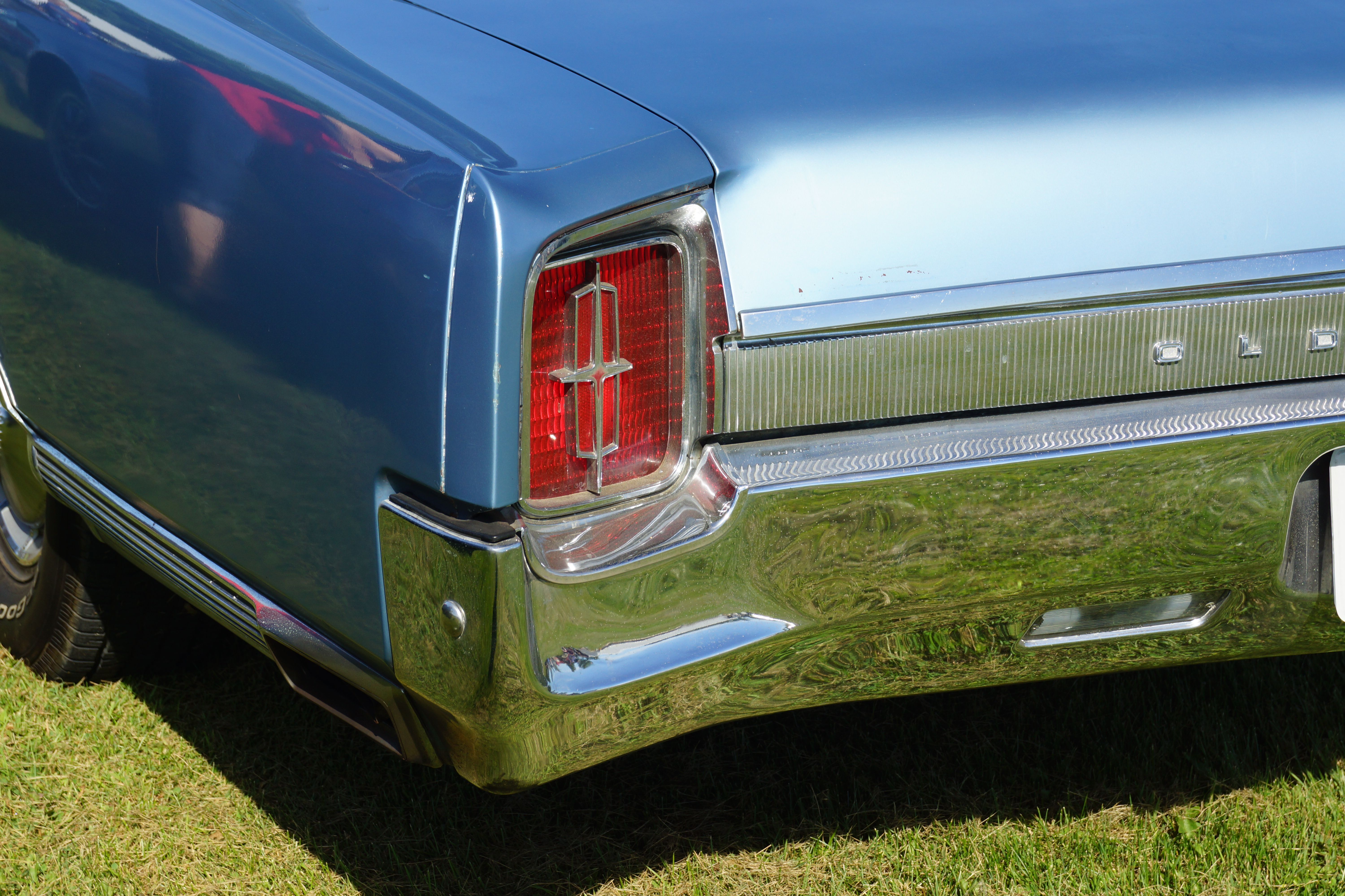 Minnesota Olds Club 40th Oldsmobile State Show & Swap meet Blacksmith Lounge Hugo, Minnesota August 2016 Click here for more car pictures at my Flickr site.